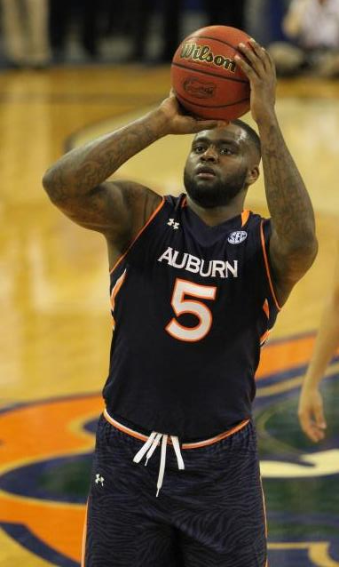 Auburn vs Florida Gators 2015/01/15